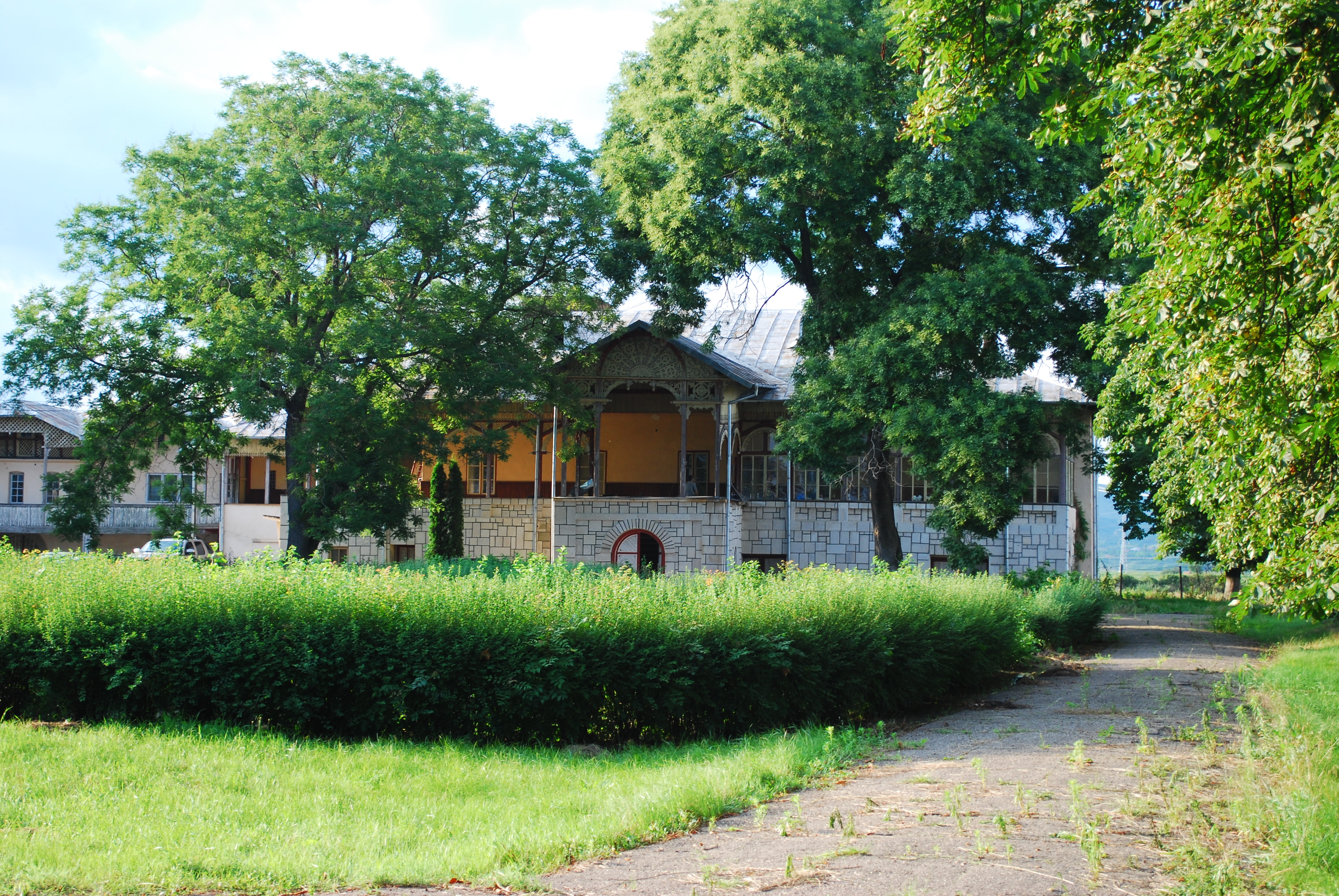 The historic boyar's mansion in Cândeşti, Buzău County, Romania